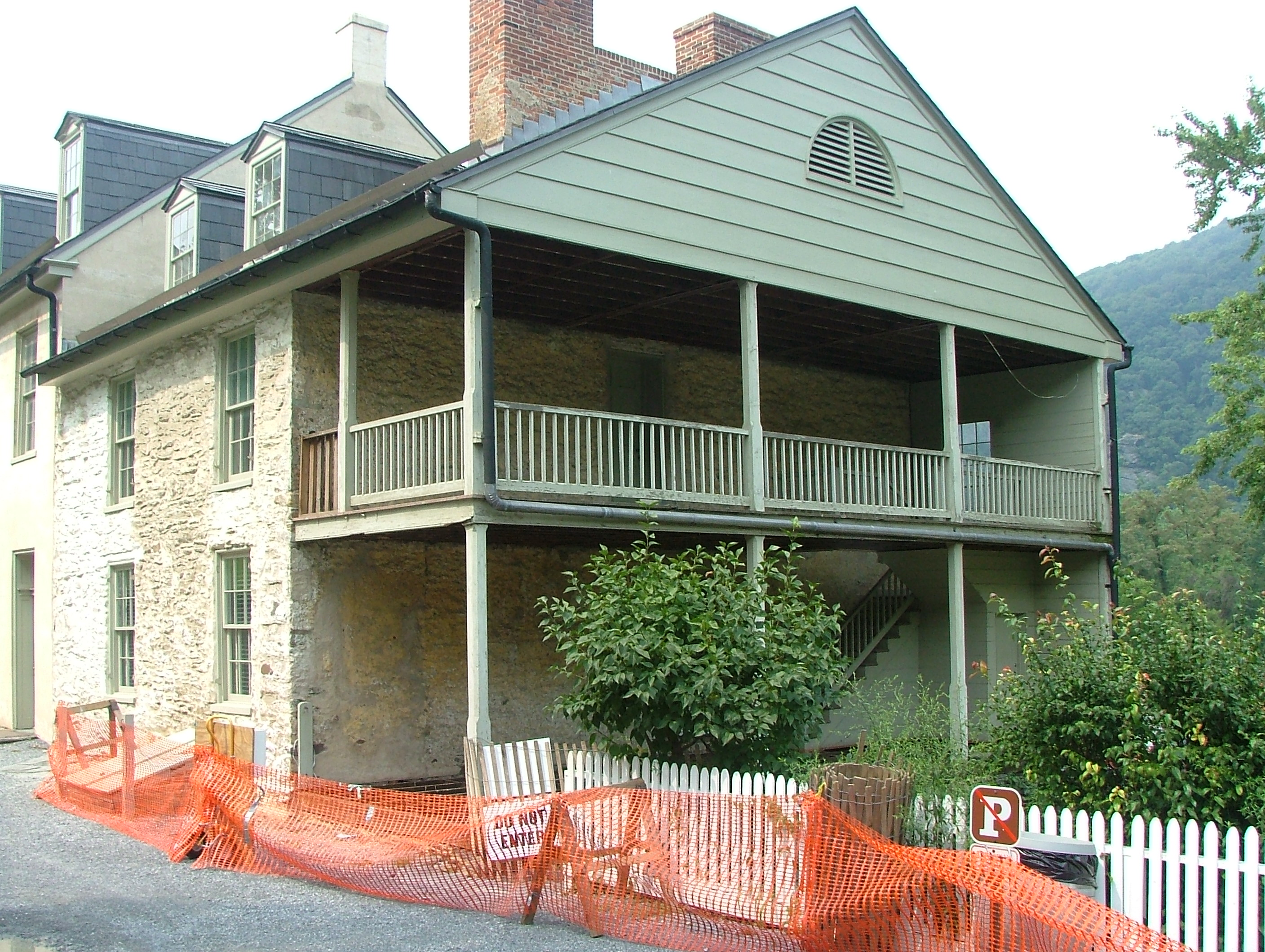 Harper's Ferry: Robert Harper's house Jan Kronsell, 2004